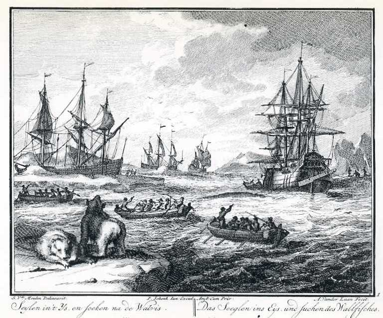 Das Segeln ins Eis und Suchen des Wallfisches, engraving by Adolf van der Laan (ca. 1690 - 1742)